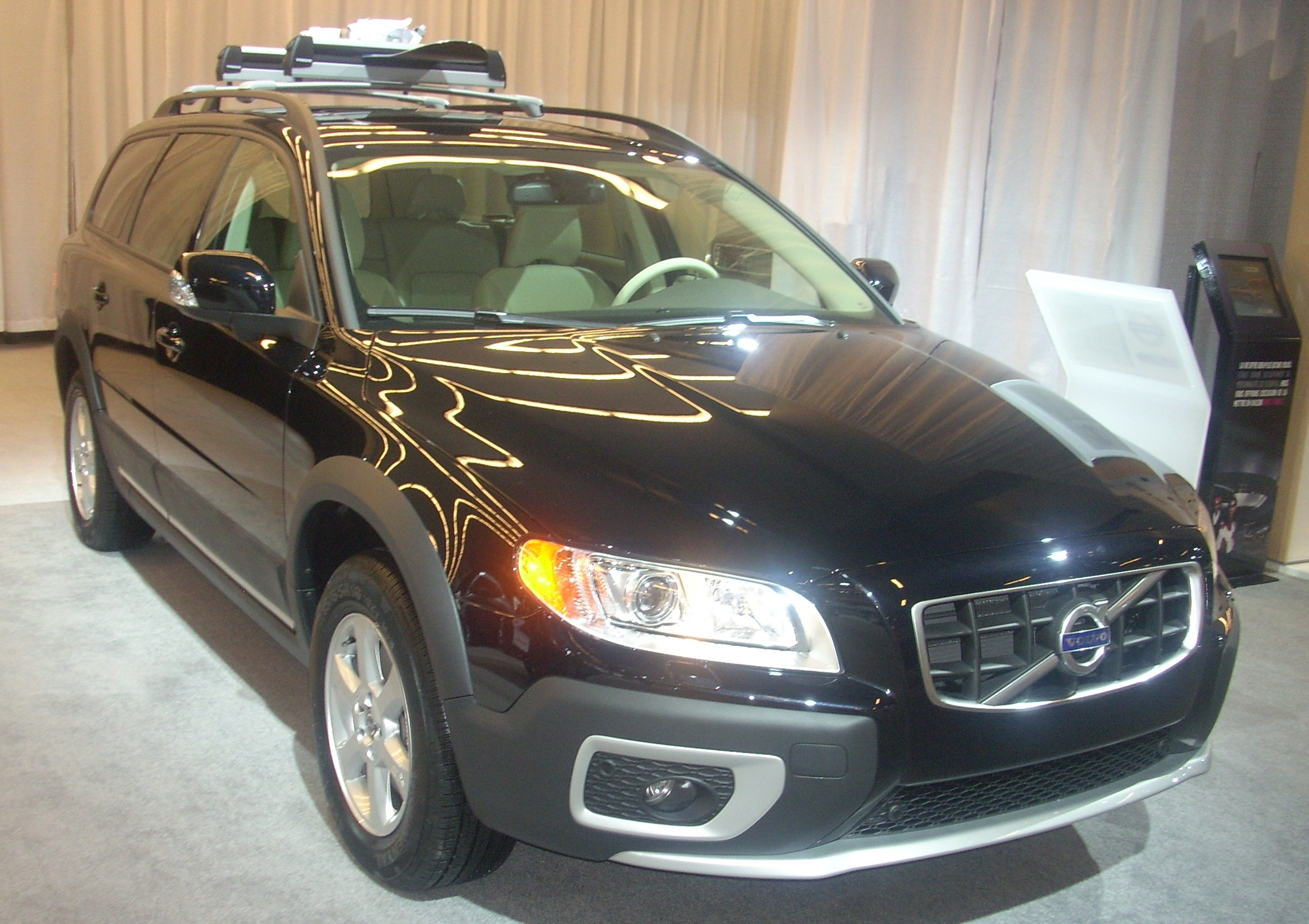 2010 Volvo V70 photographed in Montreal, Quebec, Canada at the 2010 Montreal International Auto Show.